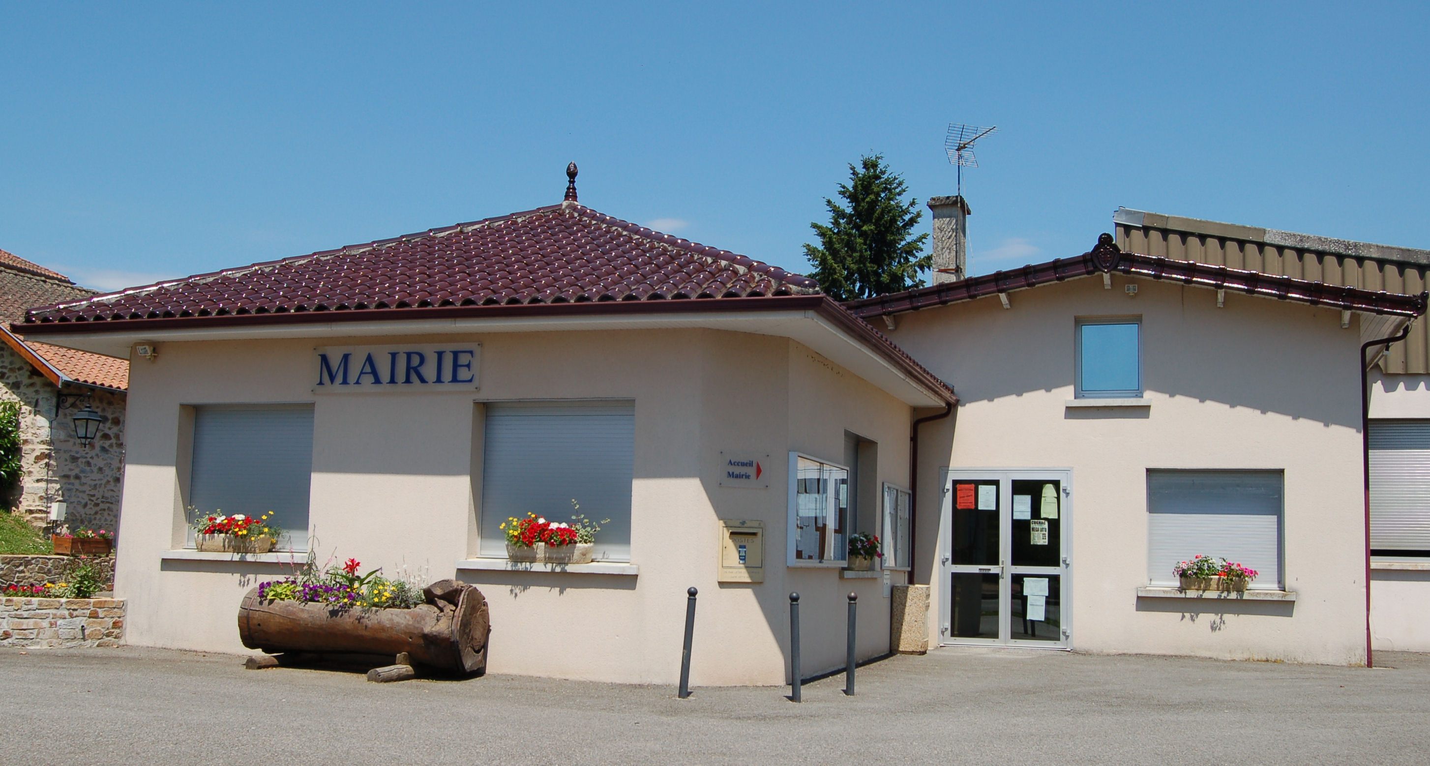 Photograph of the Mairie at Chaillac-Sur-Vienne, Haute-Vienne, France